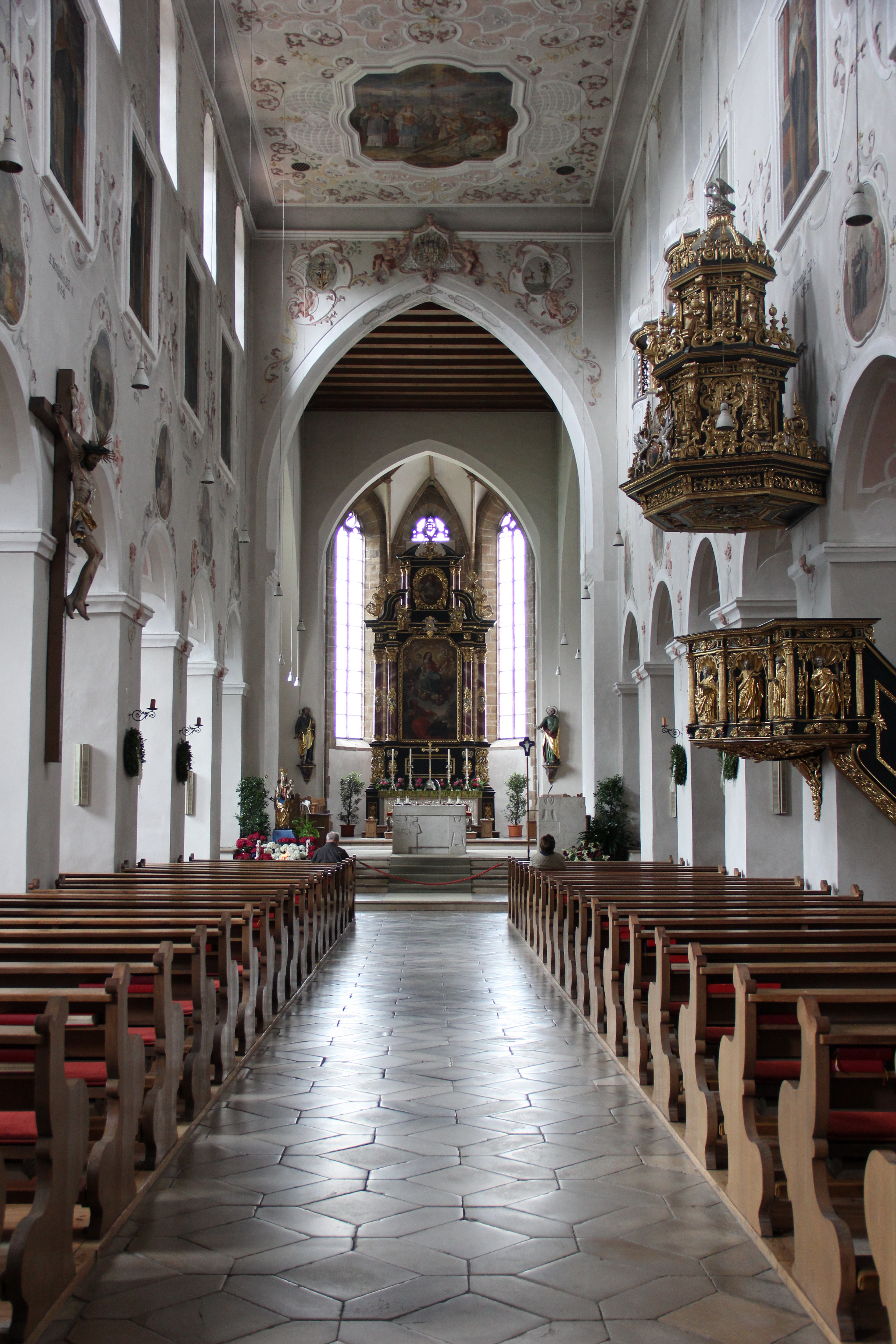 Plankstetten Abbey Native nameKloster PlankstettenLocationPlankstetten, Berching, Upper Palatinate, GermanyCoordinates49° 04′ 06.96″ N, 11° 27′ 13.68″ E Established12th century date QS:P,+1150-00-00T00:00:00Z/7Authority control : Q319484 VIAF: 123476497 LCCN: no99004112 GND: 2167285-4 WorldCat institution QS:P195,Q319484